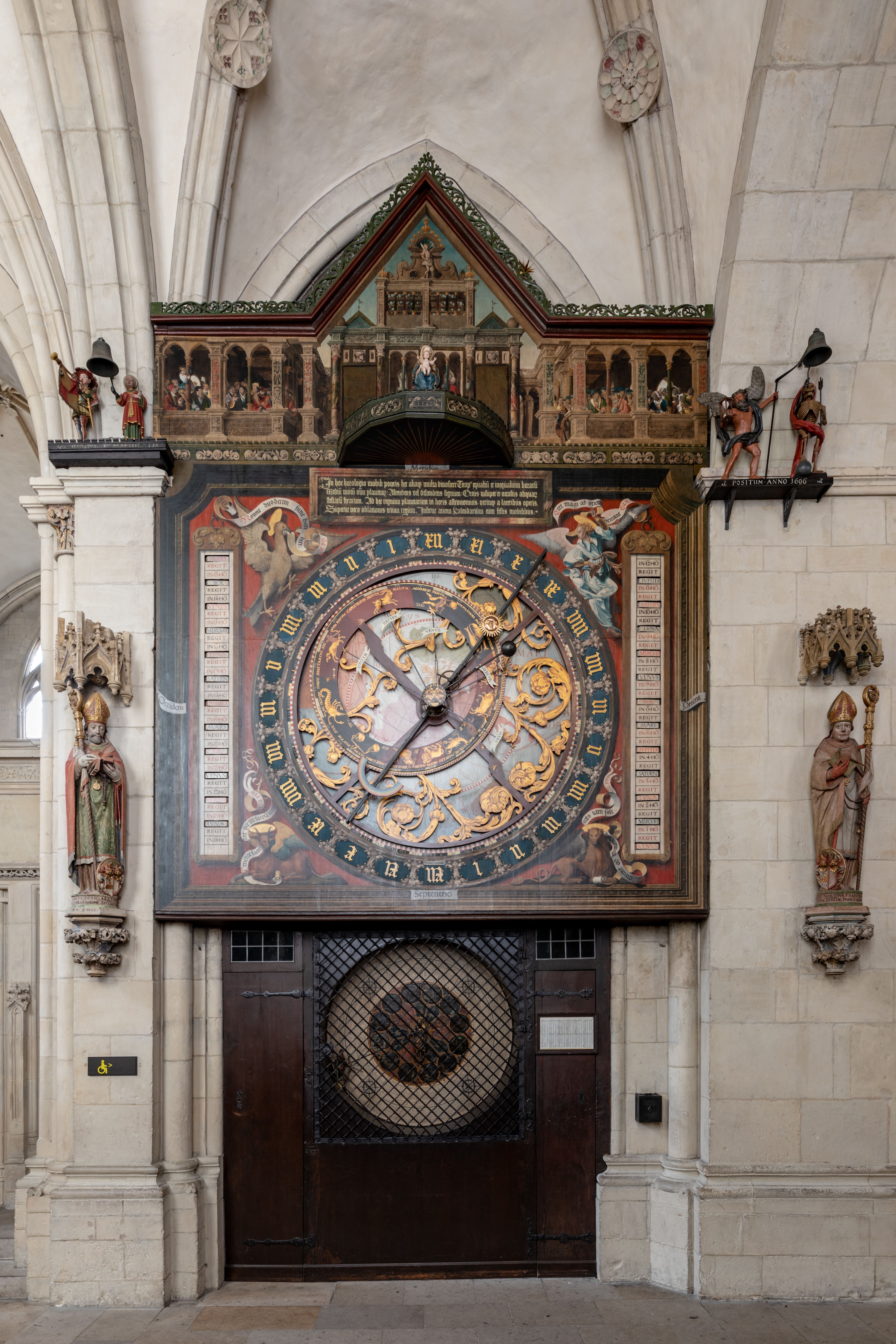 Astronomical clock in the St Paul's Cathedral in Münster, North Rhine-Westphalia, Germany This image shows a heritage building in Germany, located in the North Rhine-Westphalian city Münster.